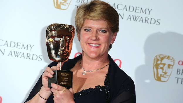 clare balding with one of her award